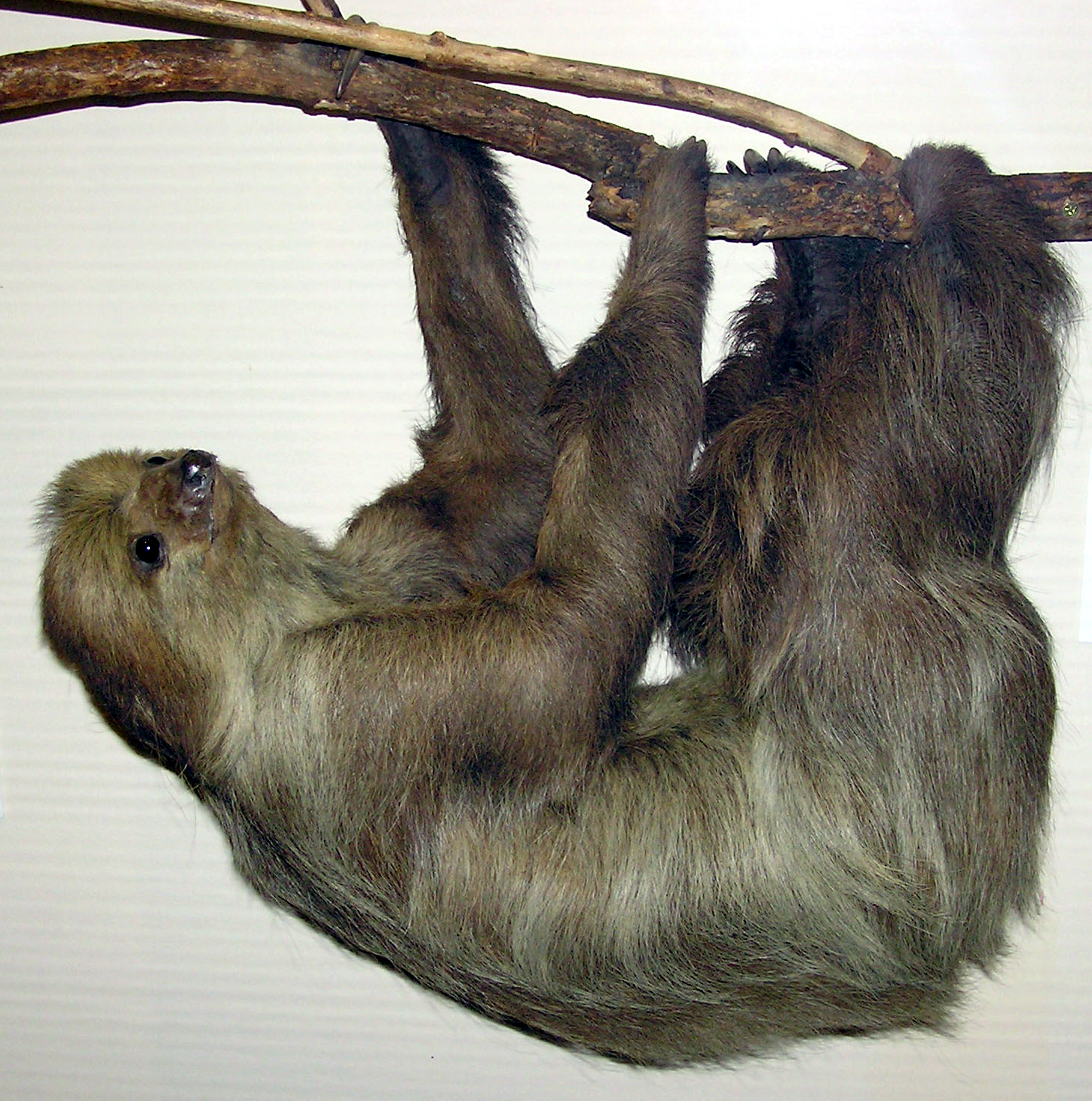 Linnaeus’s Two-toed Sloth Choloepus didactylus (stuffed) in Bristol Museum, Bristol, England. Taken by Adrian Pingstone in February 2006 and placed in the public domain.